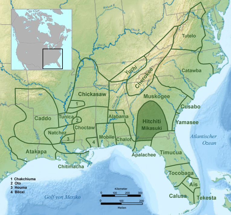 Tribal territory of Mikasuki during seventeenth century